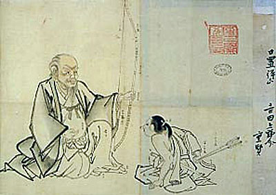 日置弾正、吉田重賢へ伝授の図。（本多流生弓斎文庫蔵） Danjoh Masatsugu Heki intiation Shigekata Yoshida into the Kyujutsu. Honda-ryu 生弓斎 collection.